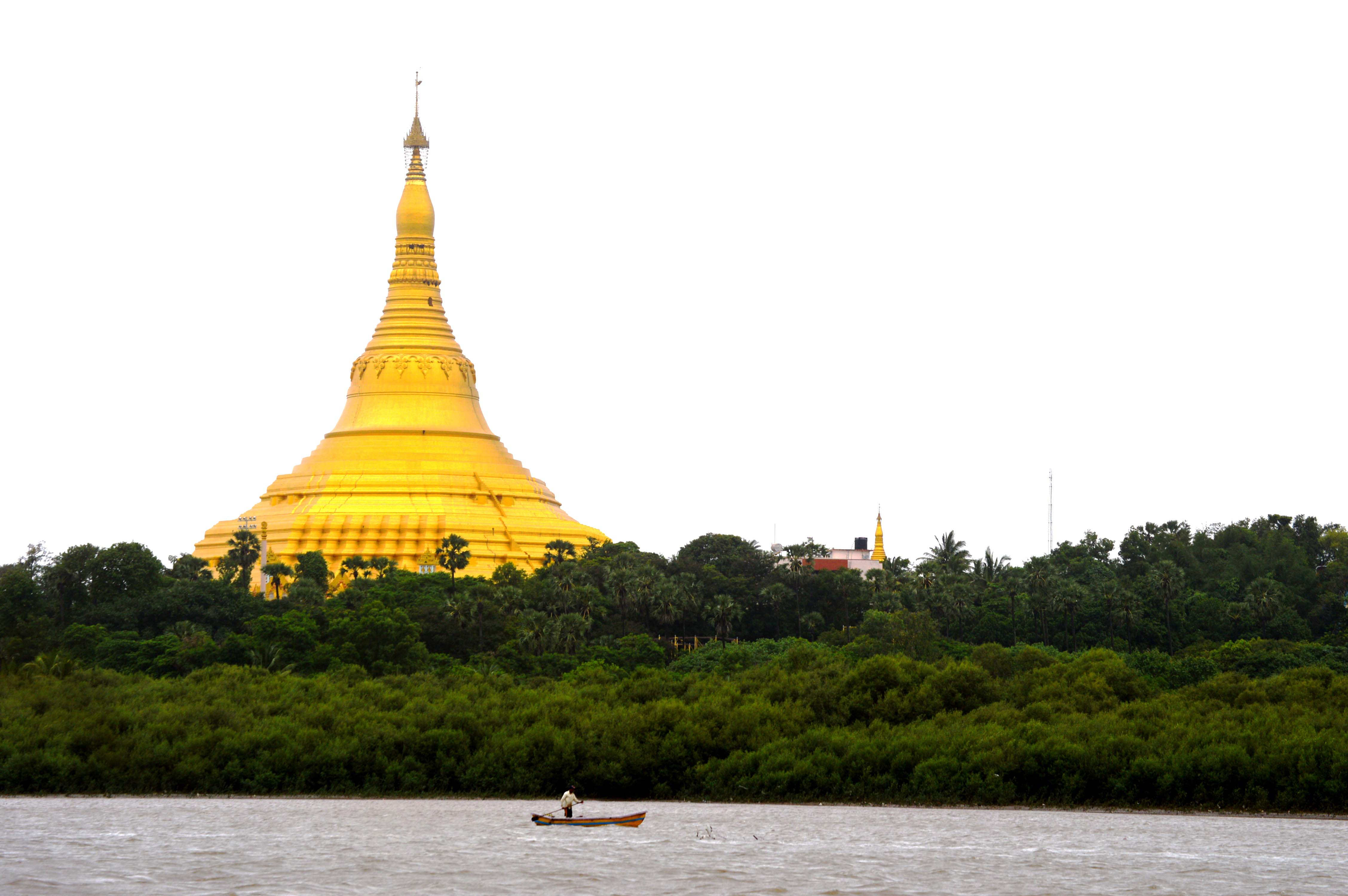 The center of the Global Vipassana Pagoda contains the world's largest stone dome built without any supporting pillars. The height of the dome is approximately 29 metres, while the height of the building is 96.12 meters, which is twice the size of the previously largest hollow stone monument in the world, the Gol Gumbaz Dome in Bijapur, India. External diameter of the largest section of the dome is 97.46m and the shorter sections is 94.82m. Internal diameter of the dome is 85.15m. The inside of the pagoda is hollow and serves as a very large meditation hall with an area covering more than 6000 m2 (65,000 ft2). The massive inner dome seats over 8000 people enabling them to practice the non-sectarian Vipassana meditation as taught by Mr S.N. Goenka and now being practiced in over 100 countries. An inaugural one-day meditation course was held at the pagoda on 21 December 2008, with Mr S.N. Goenka in attendance as the teacher. The aim of the pagoda complex is, among others, to express gratitude to Gautama Buddha for dispensing what followers believe is a universal teaching for the eradication of suffering, to educate the public about the life and teaching of the Buddha, and to provide a place for the practice of meditation. 10-day vipassana meditation courses are held free of charge at the meditation centre that is part of the Global Vipassana Pagoda complex.